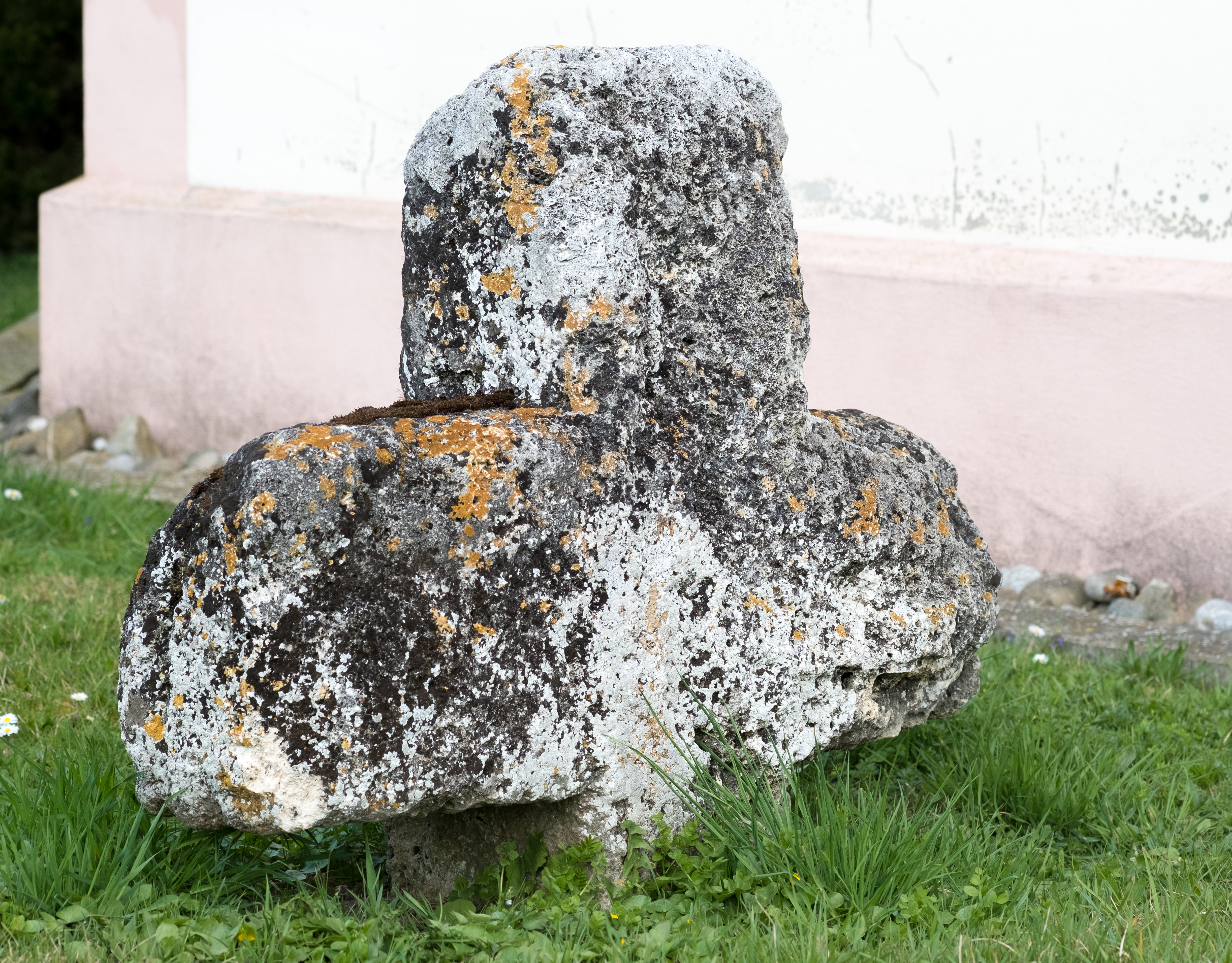 Penitence cross, chapel Annakapelle Altshausen, district Ravensburg, Baden-Württemberg, Germany